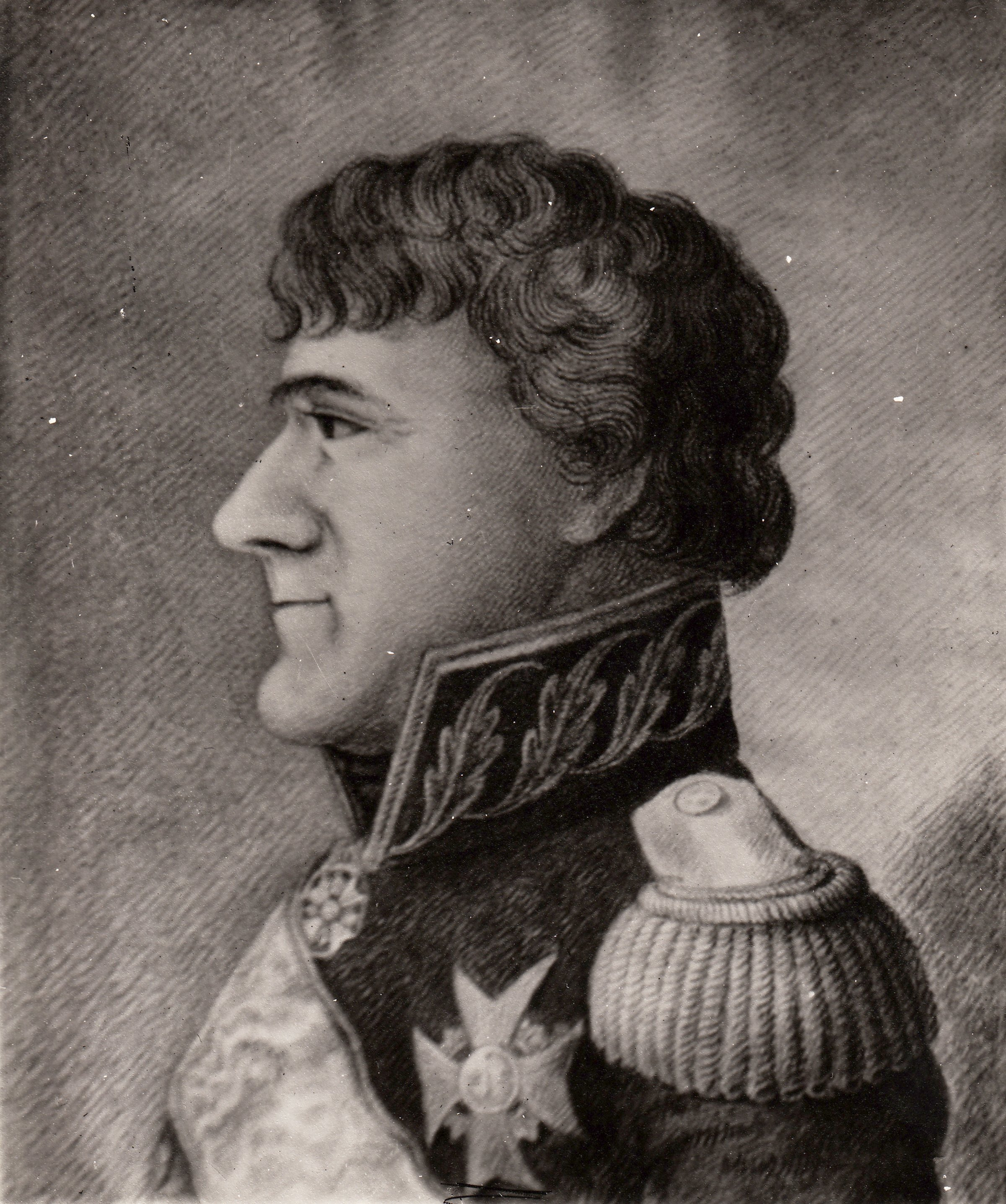 Drawing of Johannes Klingenberg Sejersted by Johannes Finne Rosenvinge. Photographed by Erik Olsen in 1897 in connection with the exhibition Trondhjems 900-årsjubileum.